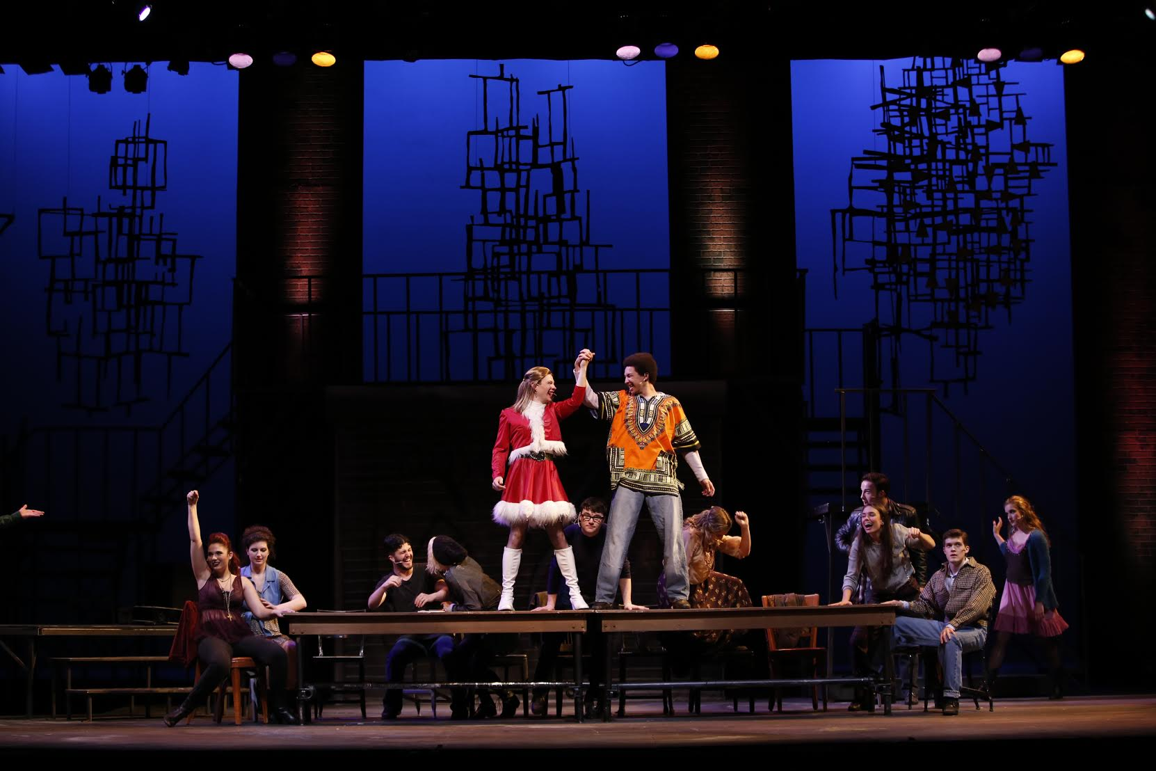 From left to right: Erin Ulman, Lauren Kent, Alex Armesto, Dana Cullinane, Luke Stewart, David Buergler, JT Wood, Natalie Szczerba, Aubree Tally, Connor Allston, Tommy Betz, Monica Brown